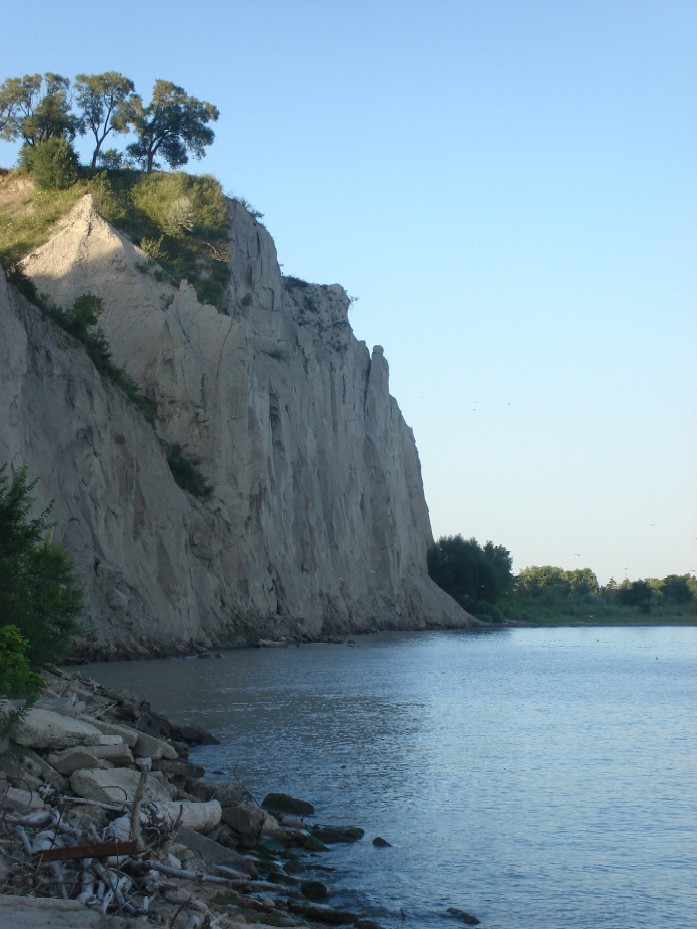 This is a picture clicked by me of the Scarborough Bluffs in August 2006.